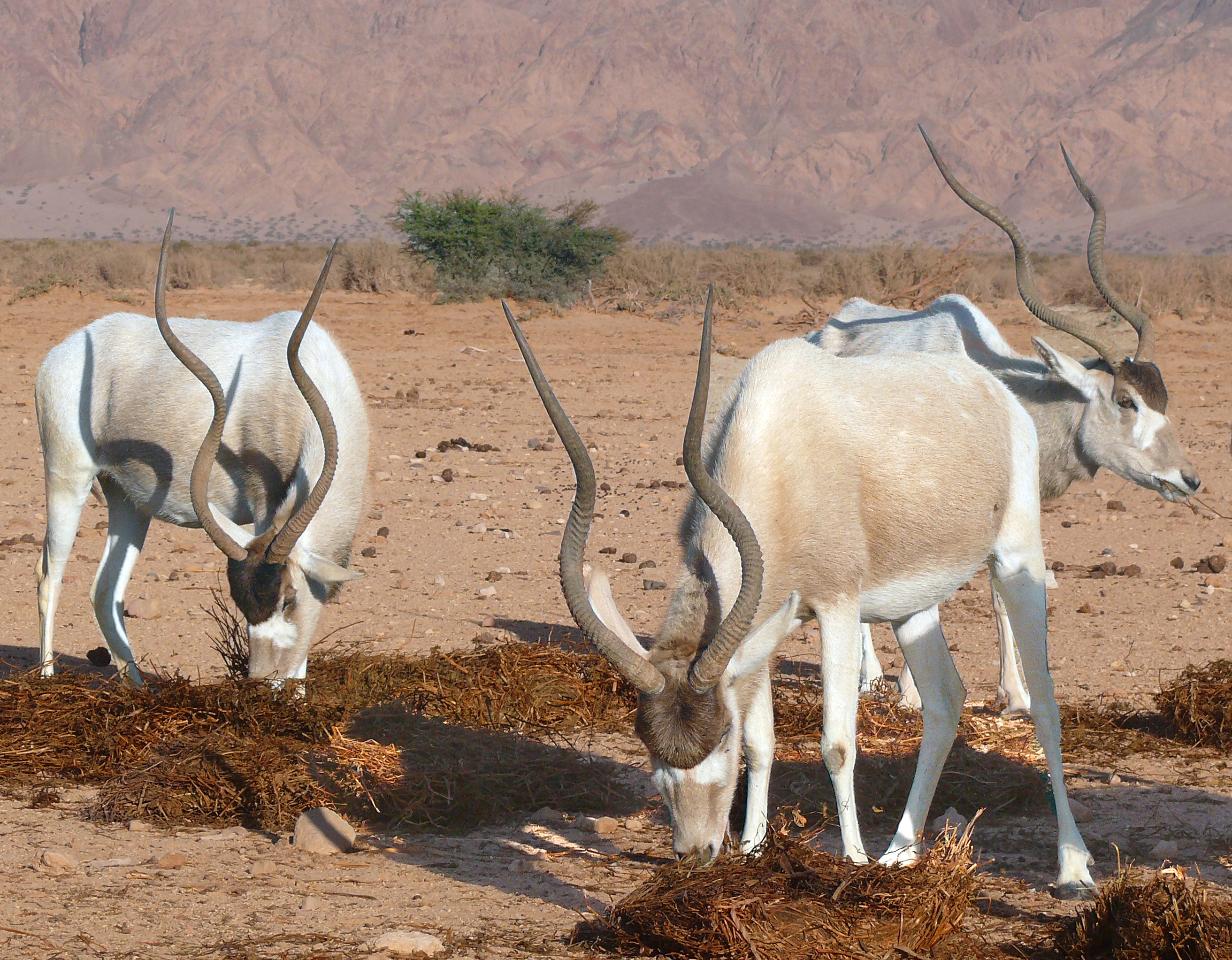 Addax nasomaculatus, Hai-Bar Yotvata, Israel